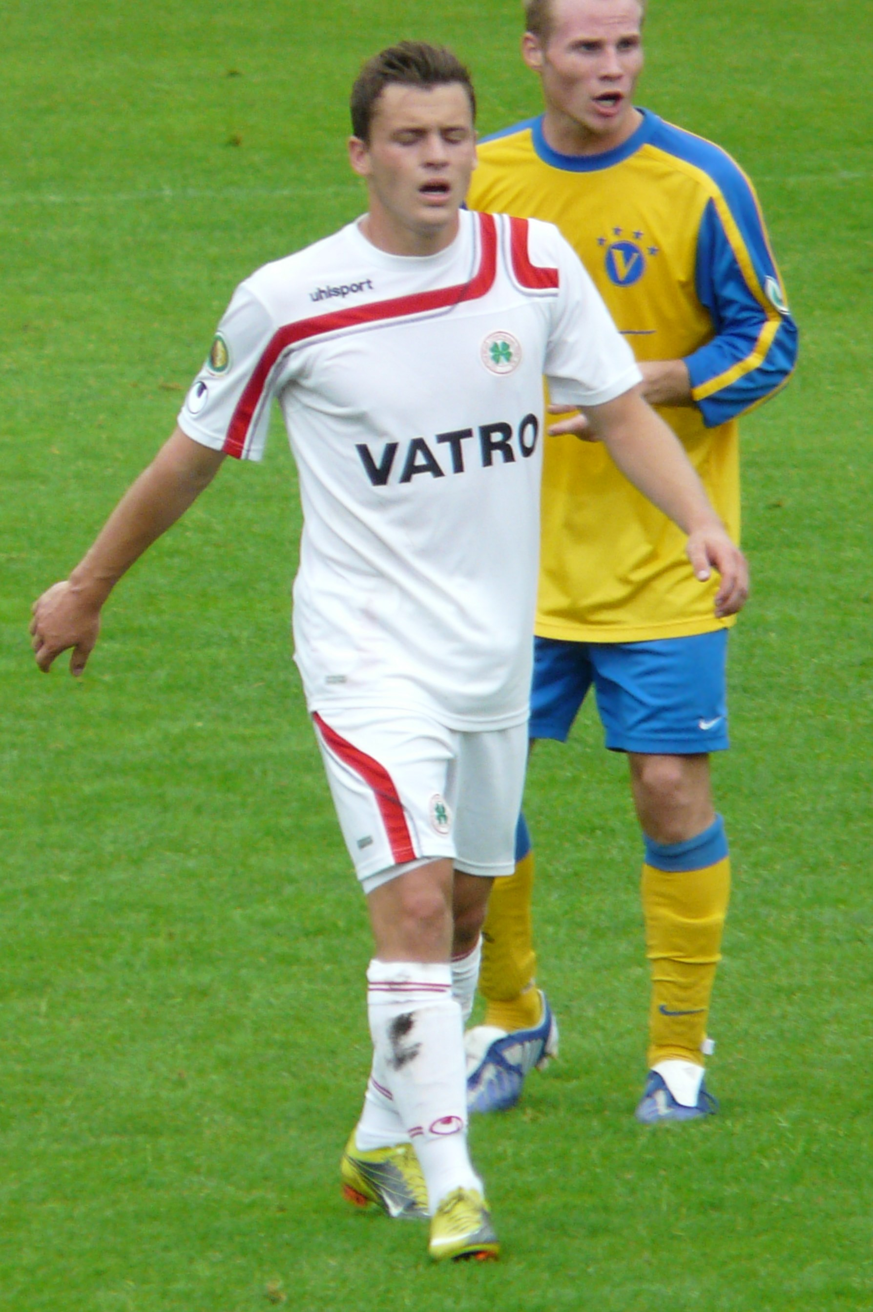 Oliver Petersch as Player from RW Oberhausen